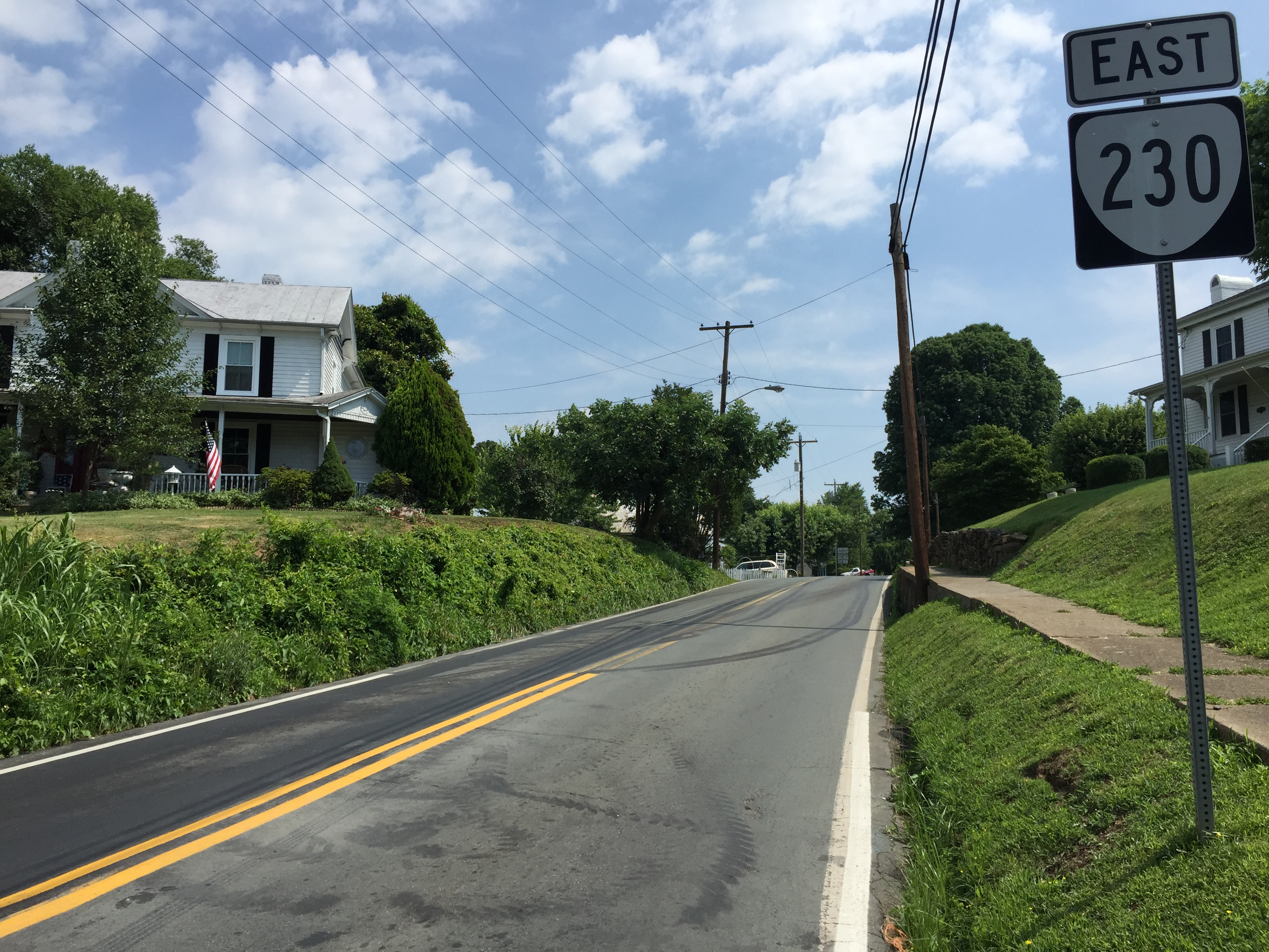 View east along Virginia State Route 230 (Madison Road) at U.S. Route 33 Business (Old Spotswood Trail) in Stanardsville, Greene County, Virginia